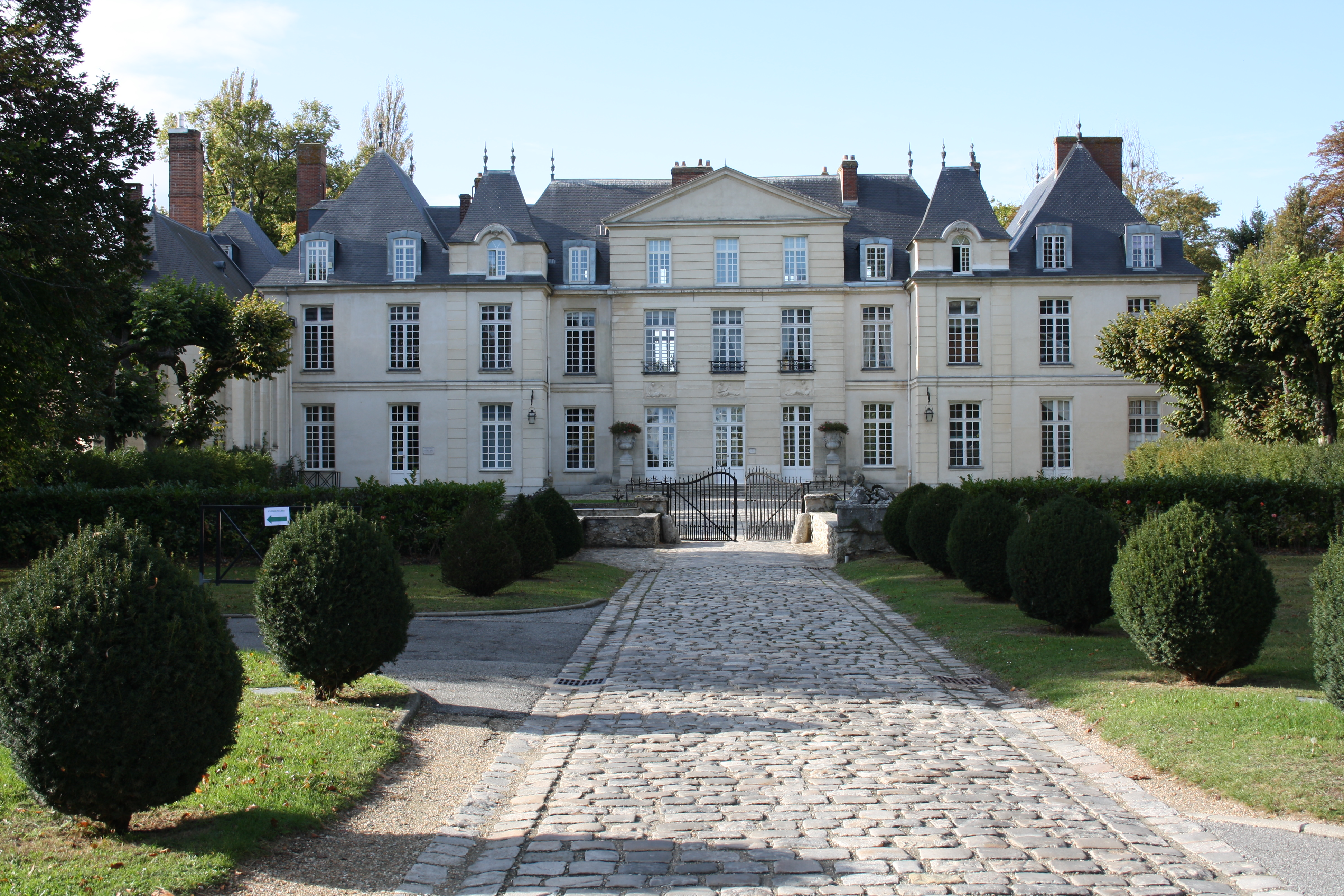 Castel in Le Mesnil-Saint-Denis, France.